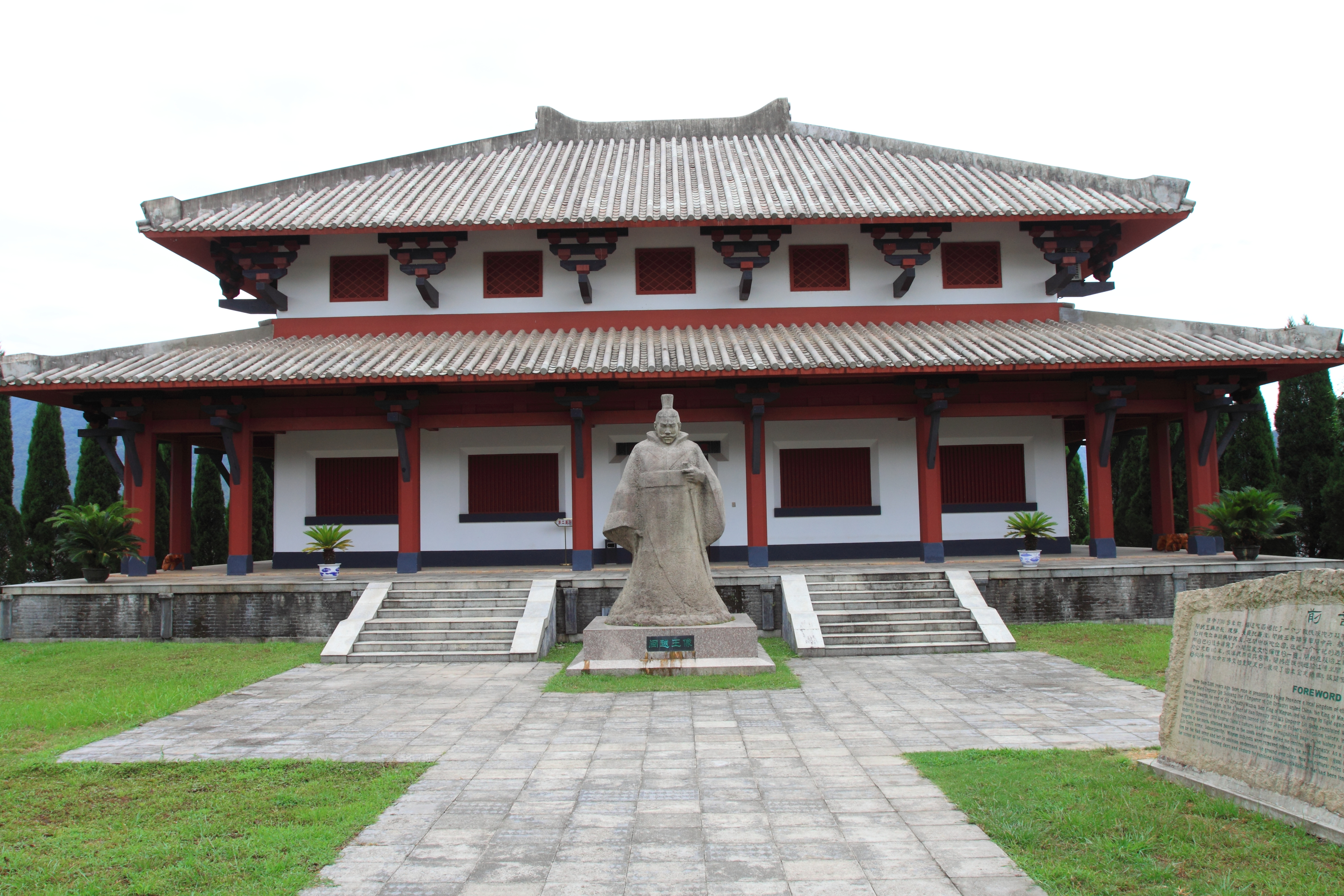 Minyue State's Imperial City Museum, in Wuyishan City, Fujian, China.